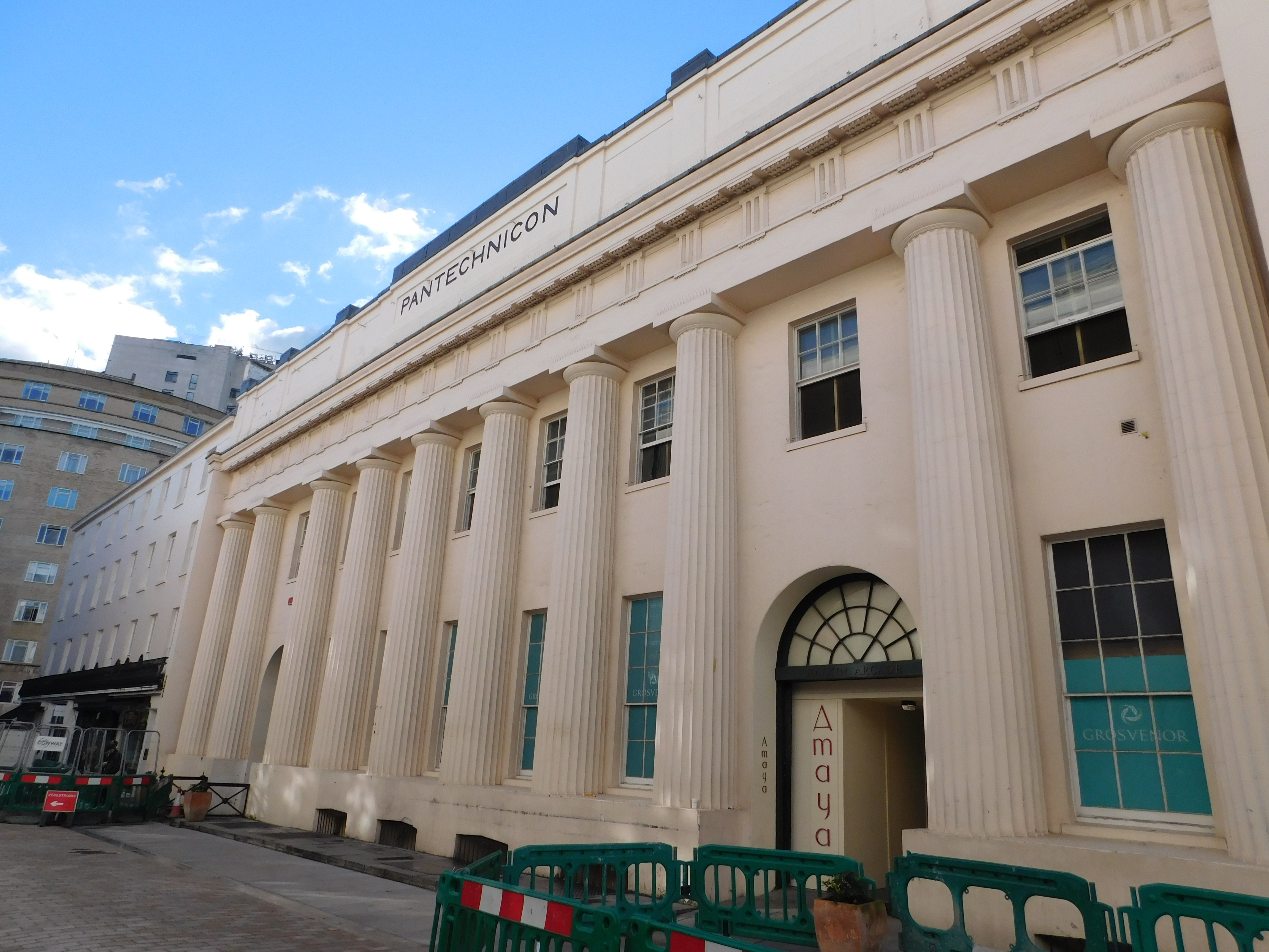 Pantechnicon Wikidata has entry Q27080857 with data related to this item.